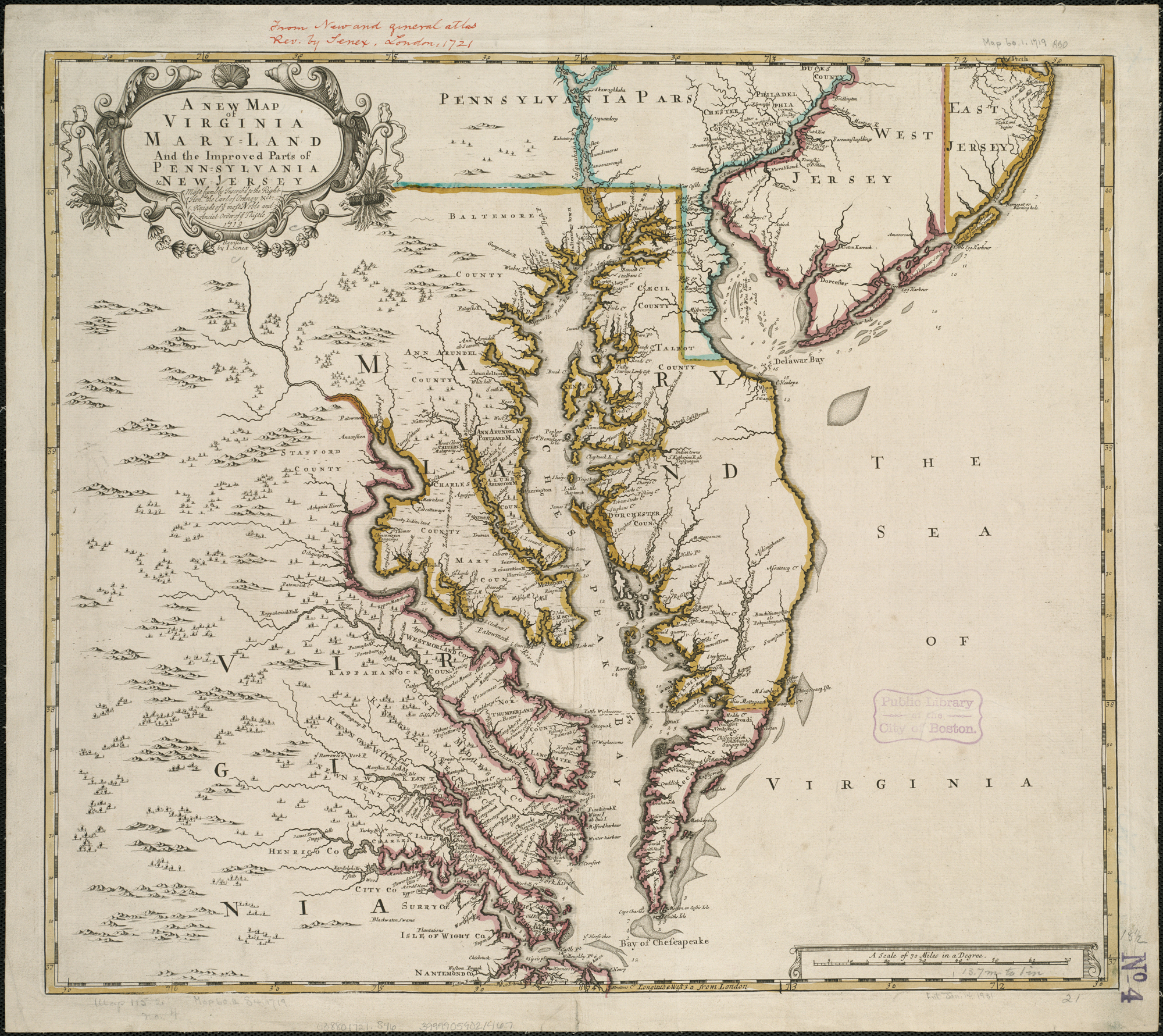 Zoom into this map at . Author: Senex, John Date: 1721 Location: Maryland, New Jersey, Pennsylvania, Virginia Dimension: 47x54cm Scale: [ca. 1:840,000] Call Number: G3880 1721 .S46